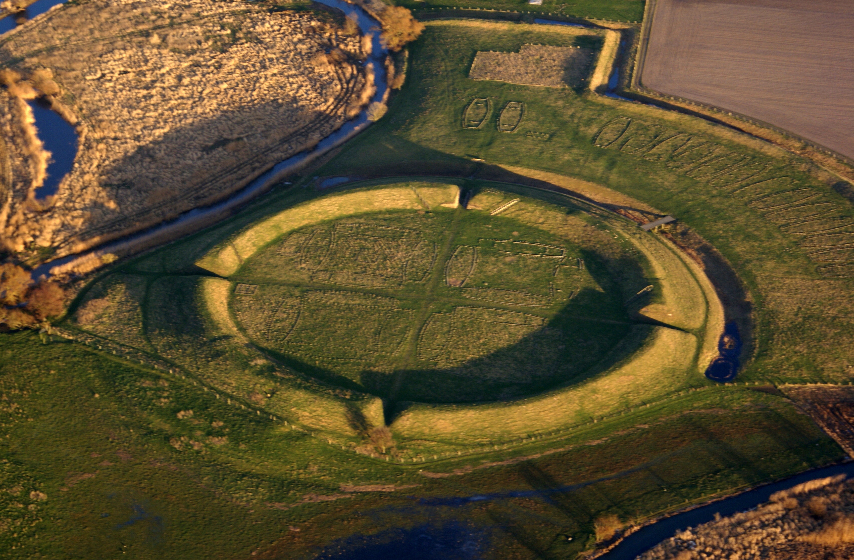 Trelleborg